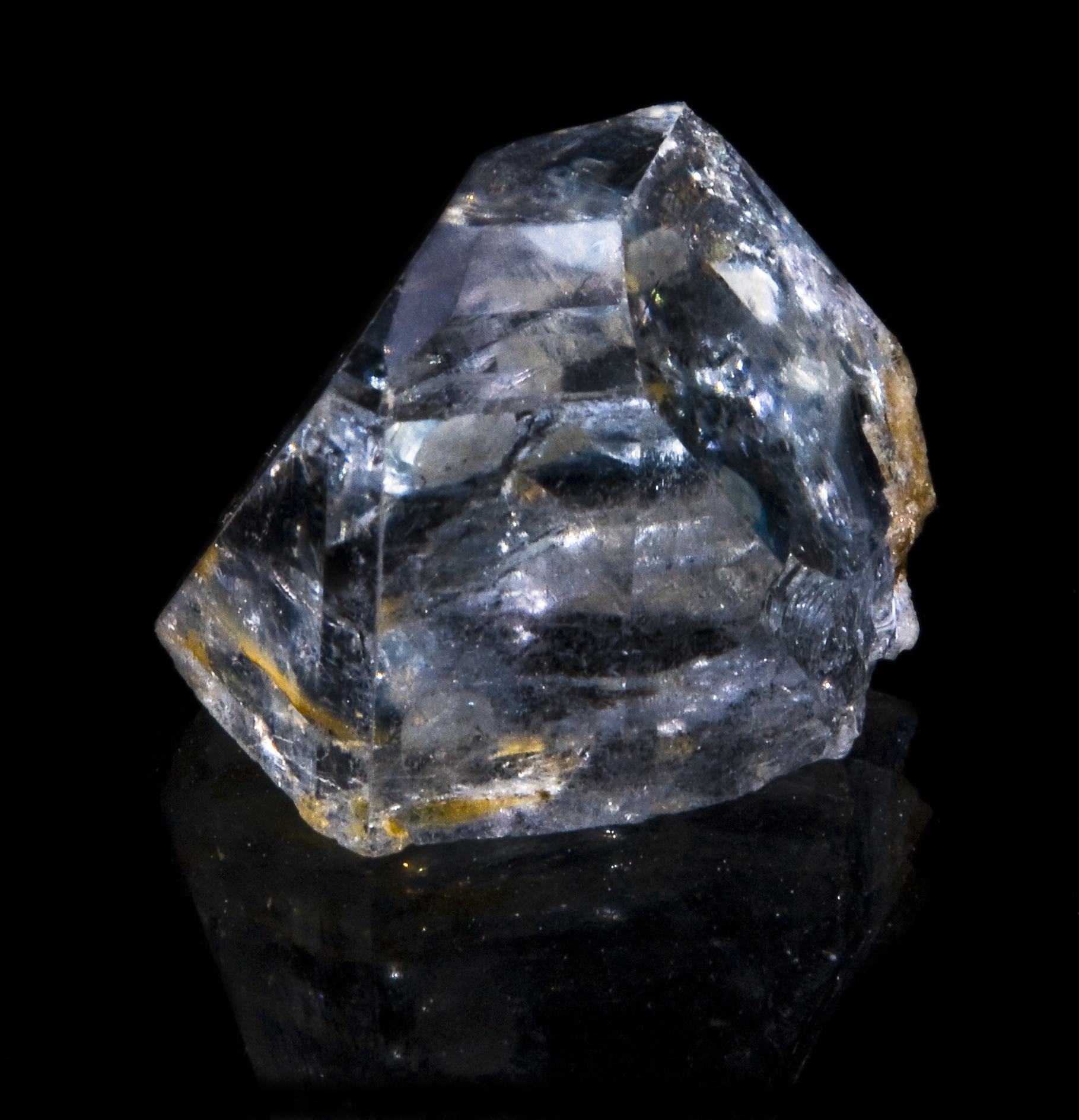 Topaz - Xanda Mine, Virgem da Lapa, Araçuaí Pegmatite District, Eastern Brazilian Pegmatite Province, Minas Gerais, Southeast Region, Brazil (3x3cm)